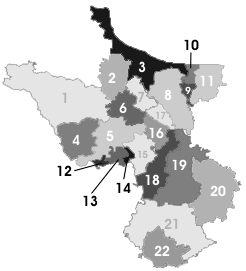 I created this from a stathood map, I separted the boroughs acording to the region